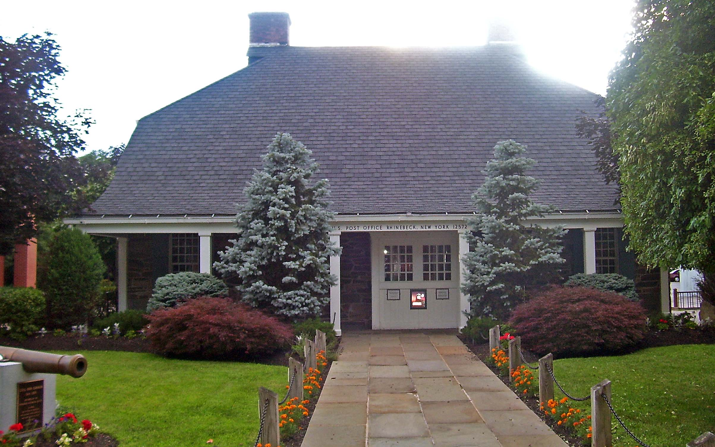 The Rhinebeck U.S. Post Office — in Rhinebeck, Dutchess County, New York. 1940 stone Colonial Revival style building by the WPA—Works Progress Administration. A contributing property in the Rhinebeck Village Historic District, and on the National Register of Historic Places in Dutchess County, New York.